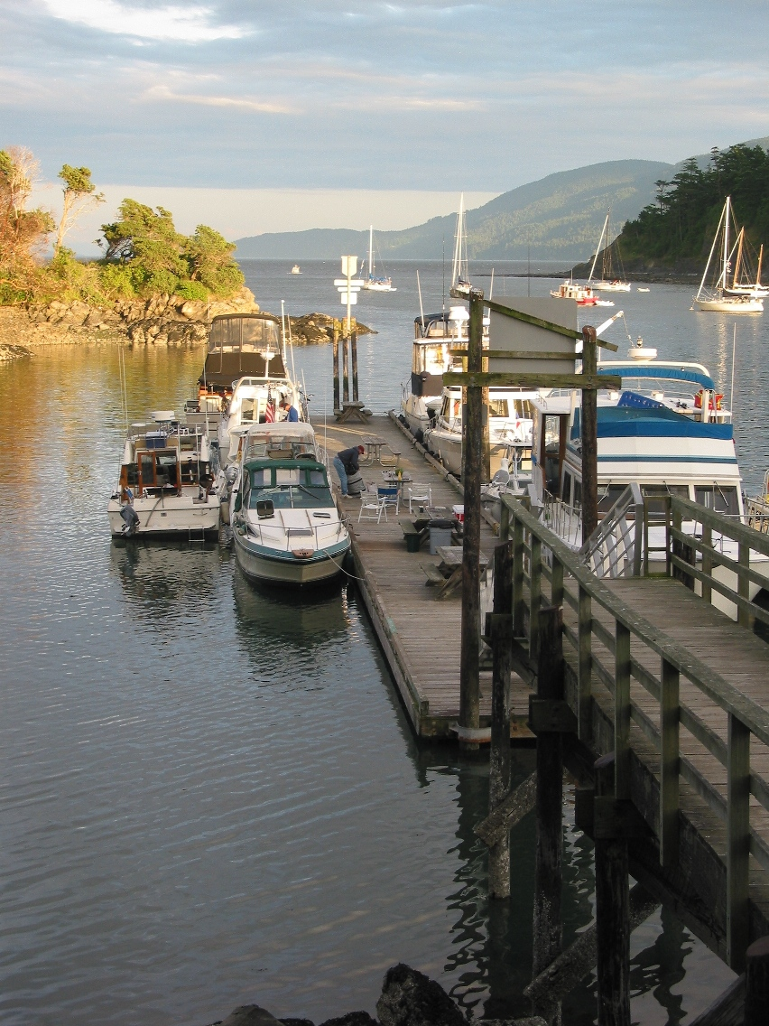 The public dock of Fossil Bay, on the south side of Sucia Island State Park